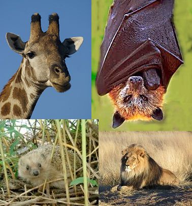 Mamíferos (mammals), based on: Image:Giraffa camelopardalis angolensis (head).jpg Image:Golden crowned fruit bat.jpg Image:Hedgehog-en.jpg Image:Lion waiting in Nambia.jpg All of them under a free licence already in Wikicommons